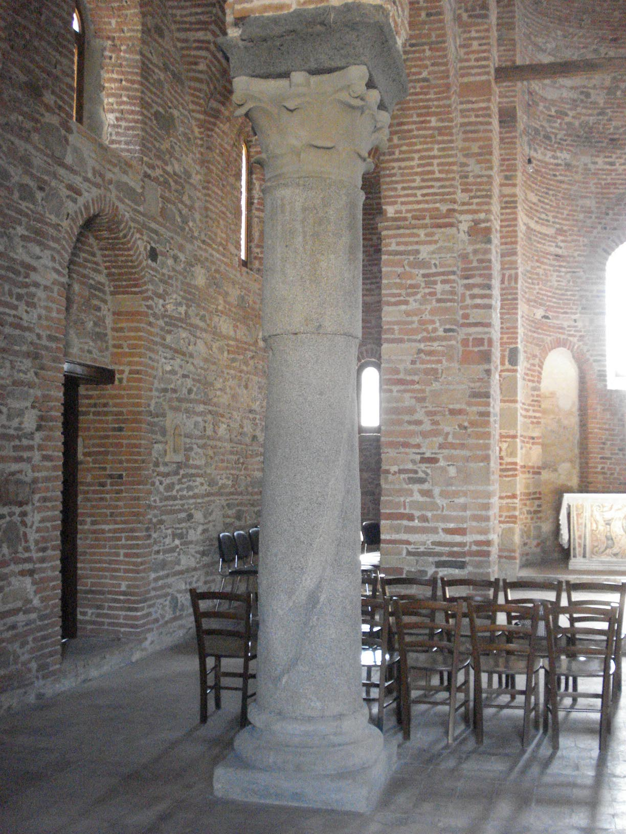 North-east column